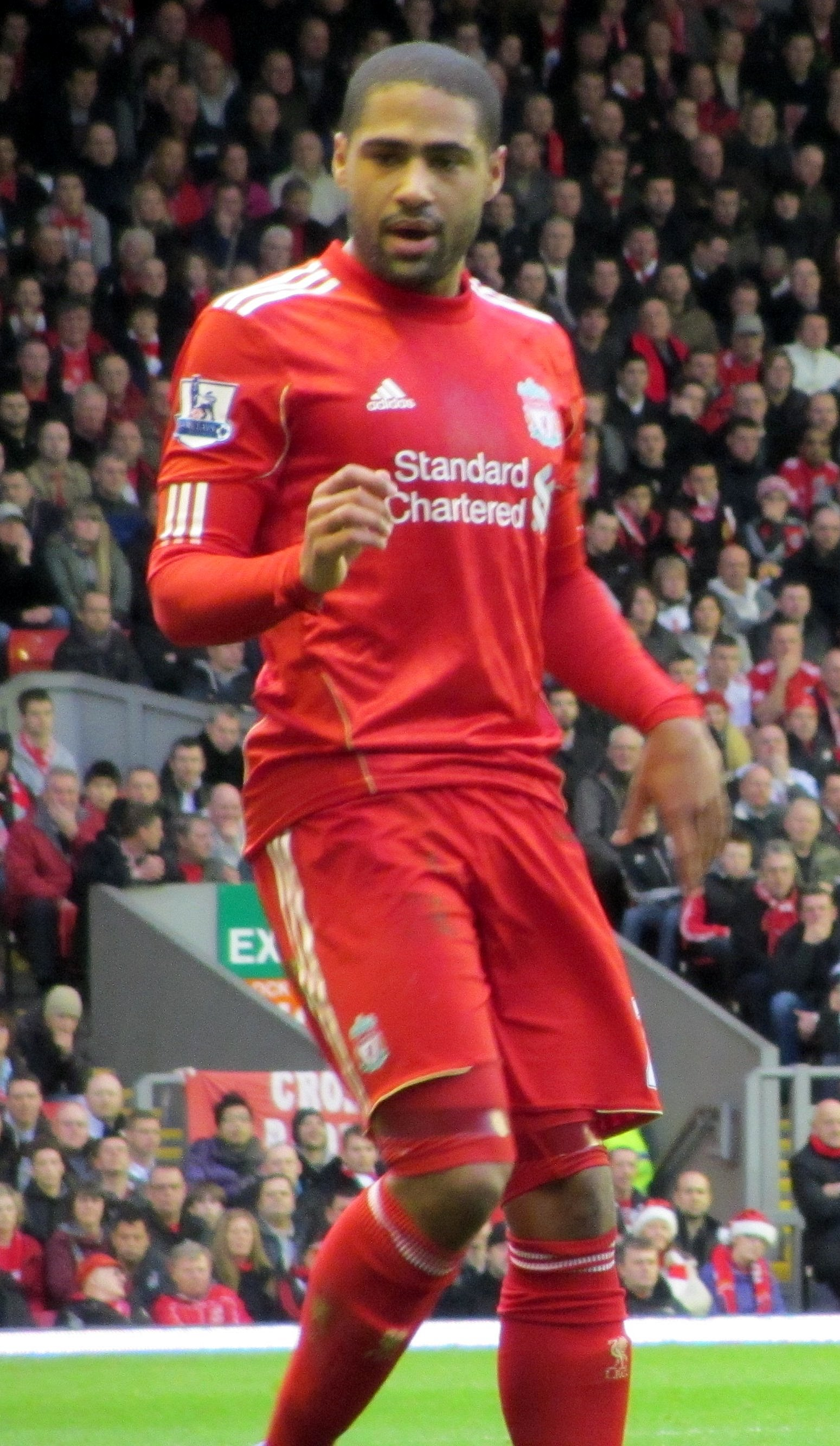 Johnson during the game against Blackburn Rovers